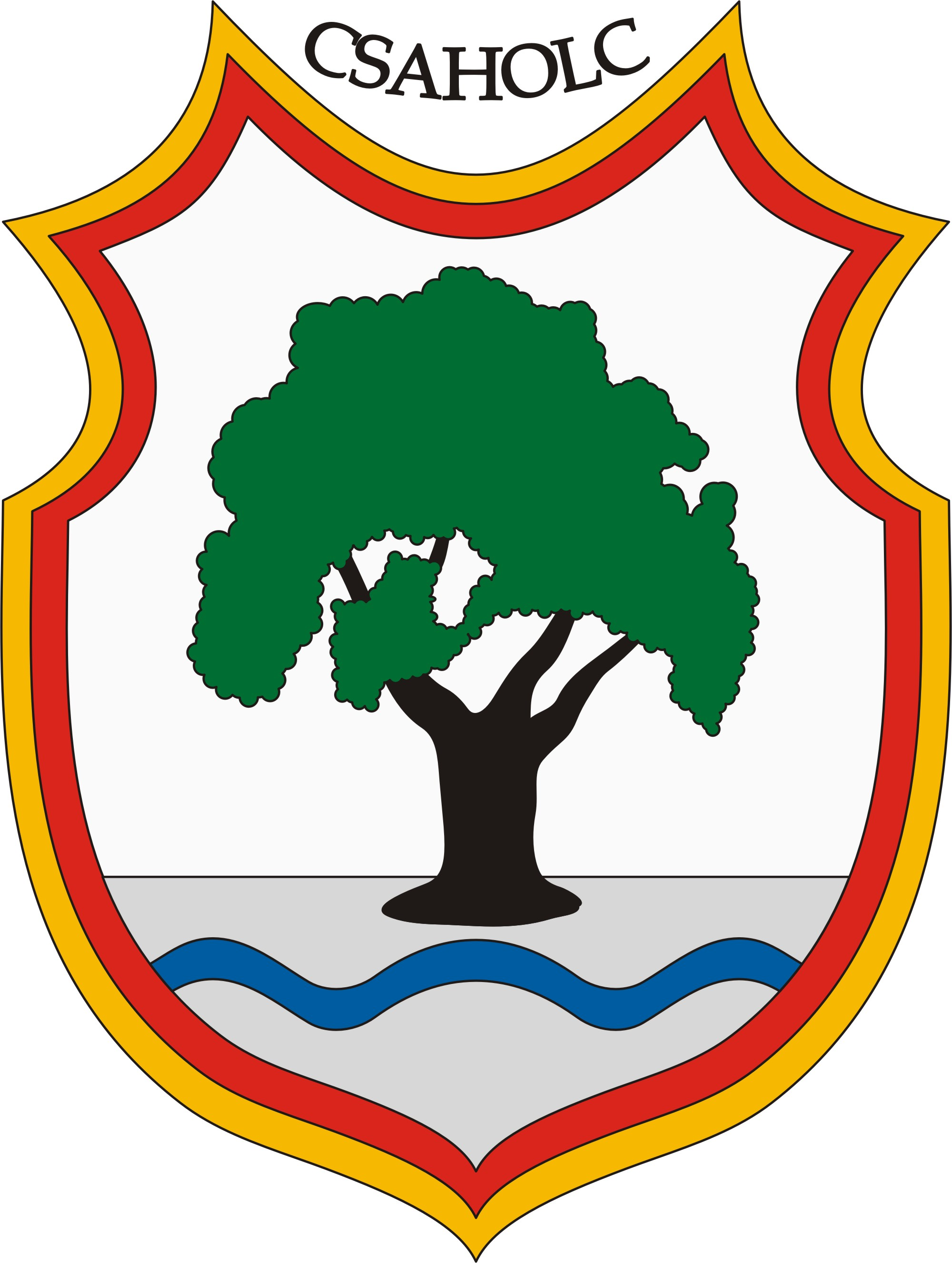 Coat of arms of Csaholc, Hungary